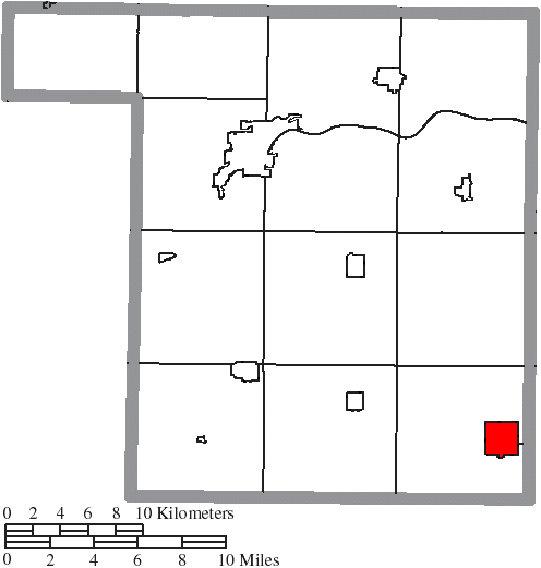 Map of the municipal and township boundaries of Henry County, Ohio, United States, as of the 2000 census, with the location of the village of Deshler highlighted. Township borders are shown only in unincorporated areas in order to differentiate incorporated and unincorporated areas more clearly.